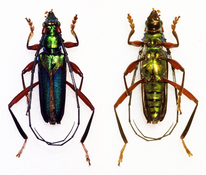 Fabricius,1775 Sex: Male Data: 08-2012 - Missahoe Forest - Mount Kloto - Togo Size: ?